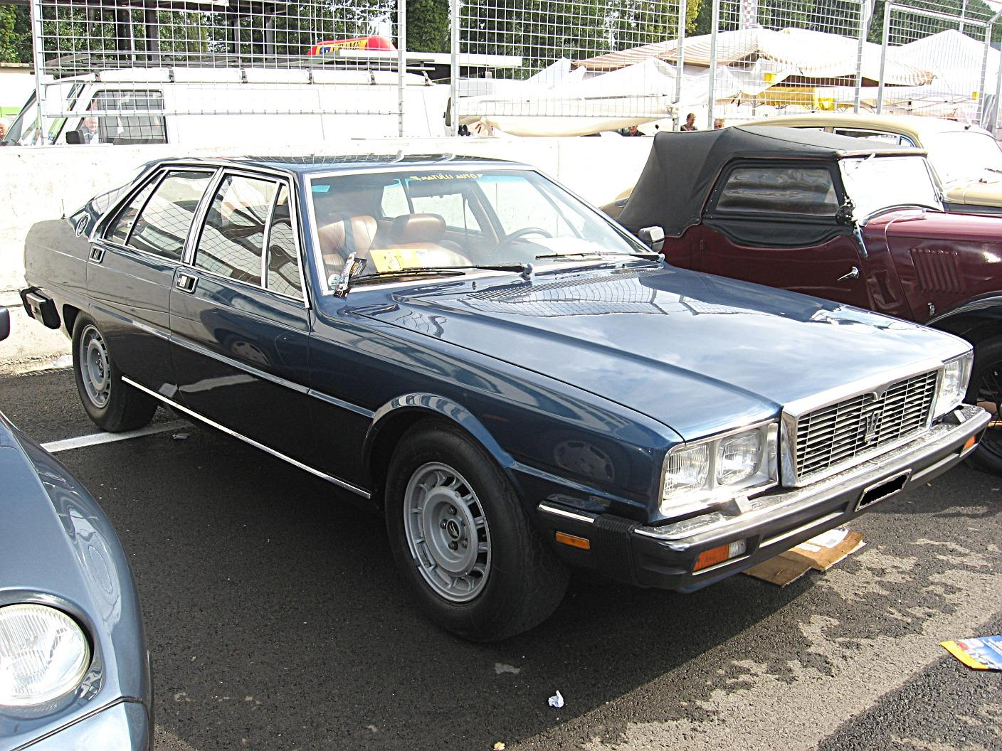 Subject: Maserati Quattroporte III Date:September 14th, 2008 Event: Mostra Scambio Place/Country: Imola (BO), Italy I release all rights in the public domain.